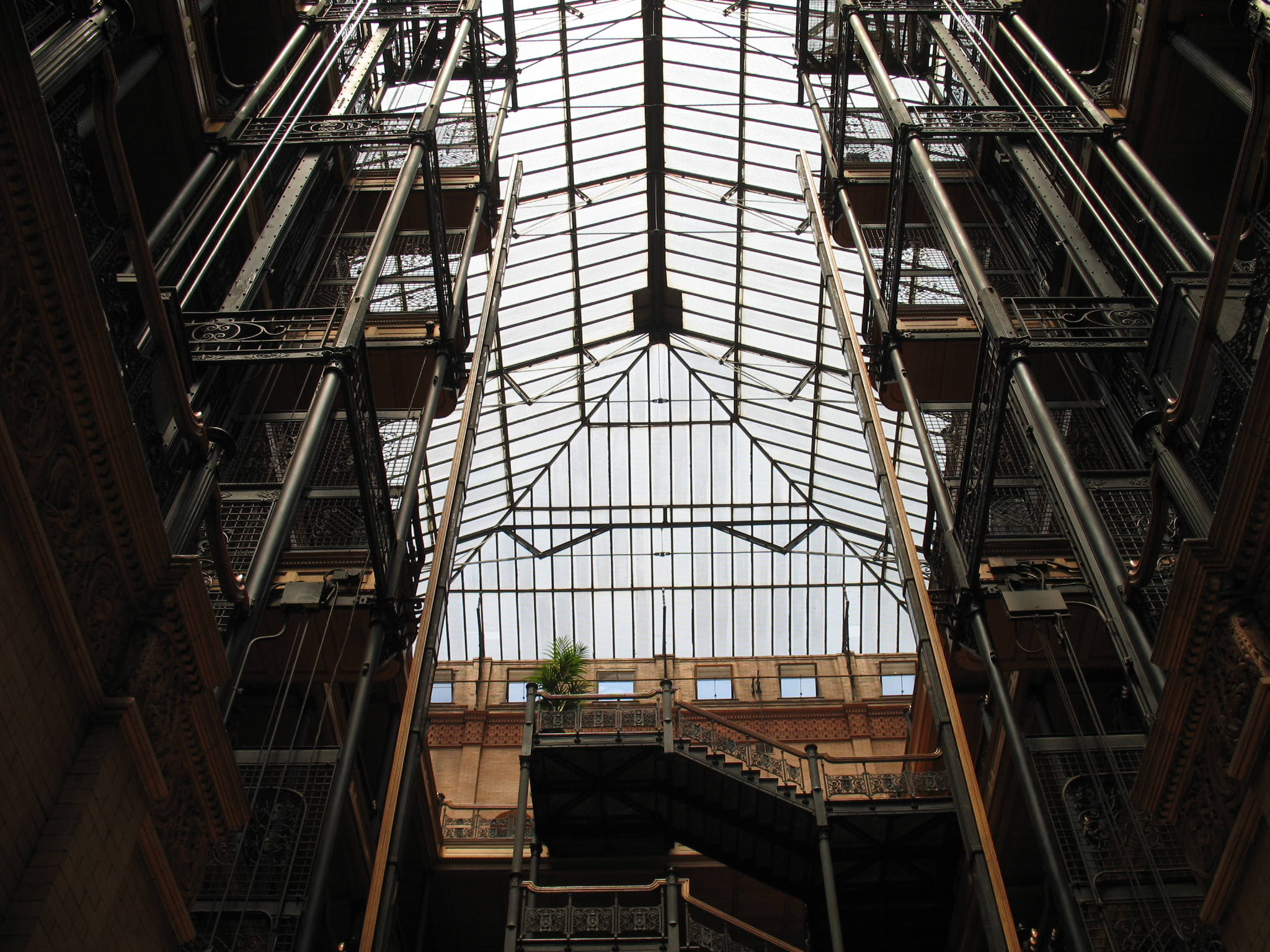 Skylight and atrium interior of the Bradbury Building, Downtown Los Angeles. Where parts of "Blade Runner" were filmed.